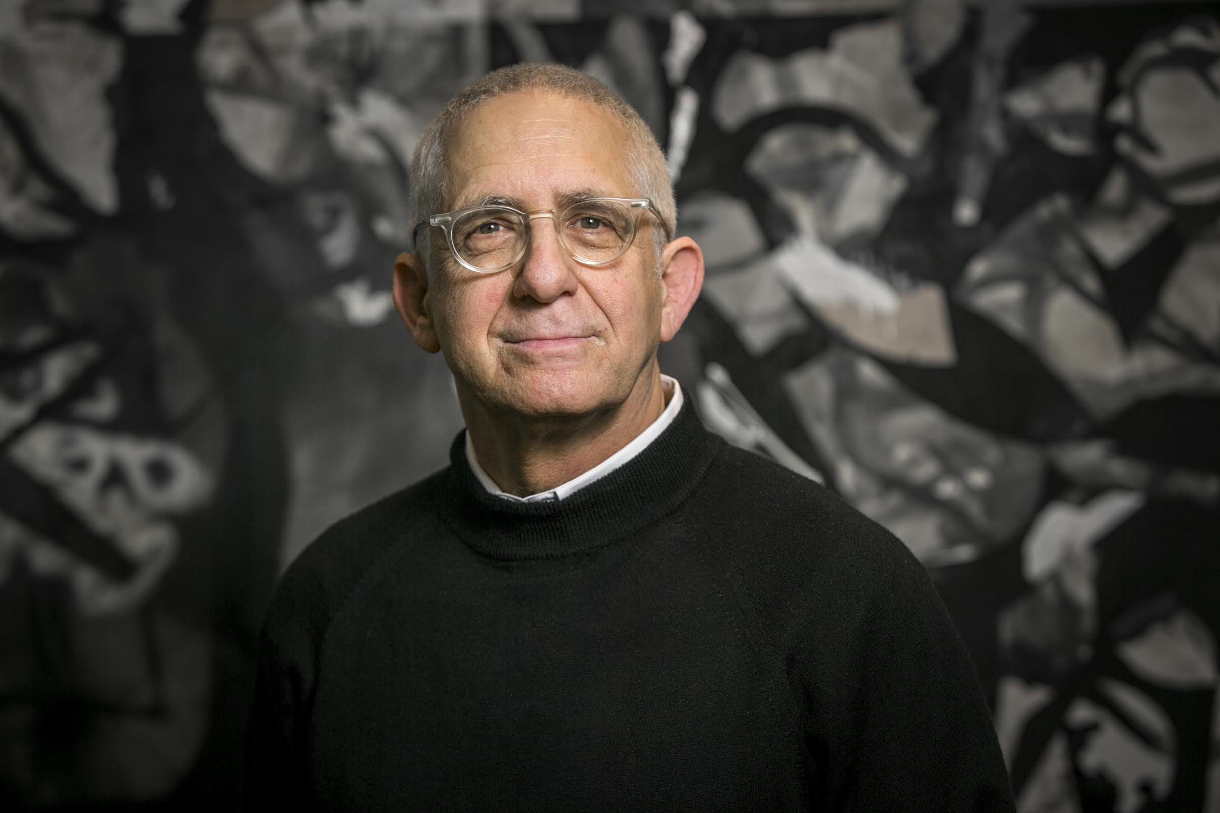 Samuel B. Bacharach Portrait